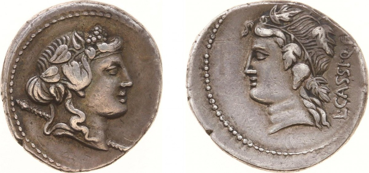 L. Cassius Q.f. Longinus, Denarius, Rome. 78 BC, 4 g, Obv.: Head of L. Cassius Q.f. Longinus - AR Denarius (Rome 78 BC, 3.91 g) - Head of Liber (or Bacchus) r., wearing ivy wreath, with thyrsus over shoulder / Head of Libera l., wearing vine wreath, behind, L CASSI Q F (Cr. 386/1, Syd. 779)l., wearing vine wreath, behind, L CASSI Q F, Cr. 386/1